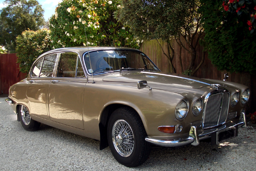 1968 Jaguar 420 in "Opalescent Golden Sand" with chrome wire wheels